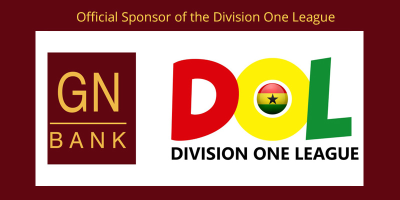 Ghana Division One League logo